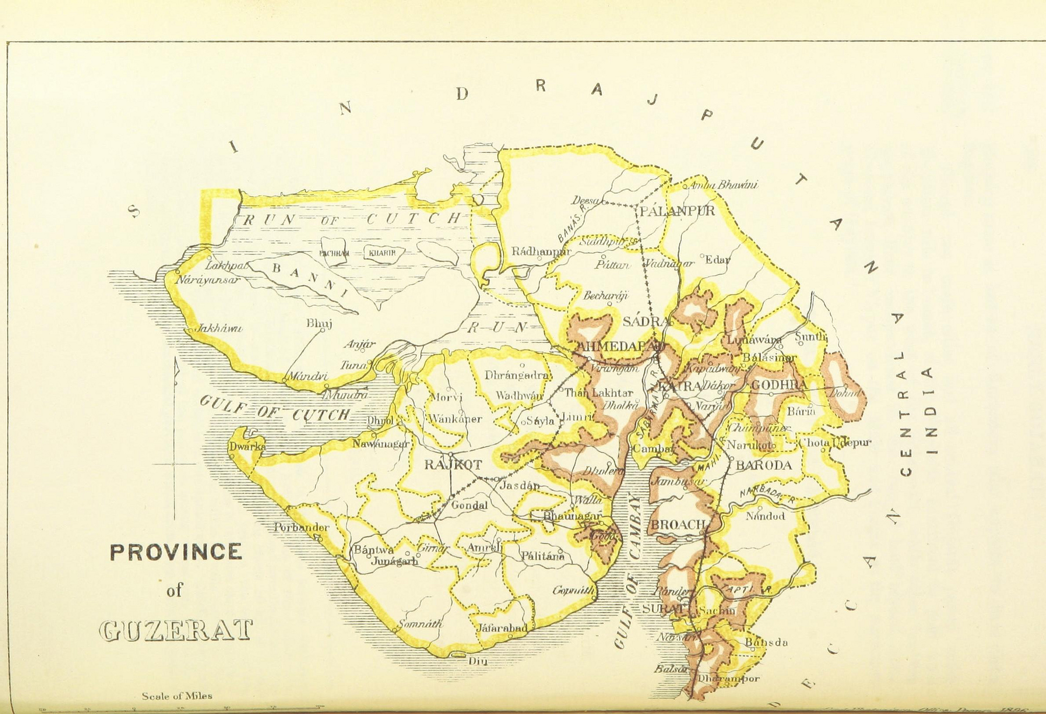 Province of Guzerat (Gujarat, India) 1896